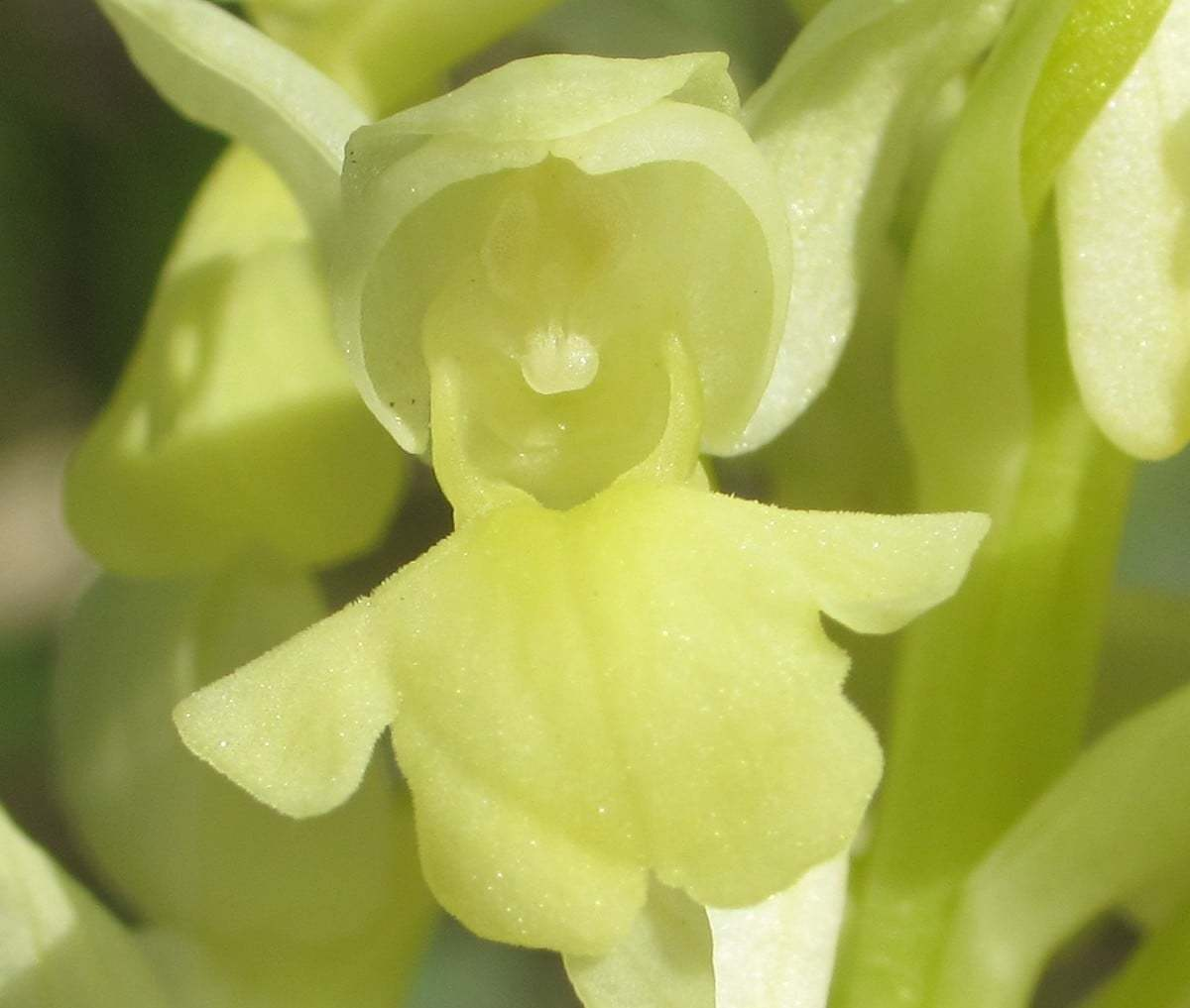 Orchis pallens flower